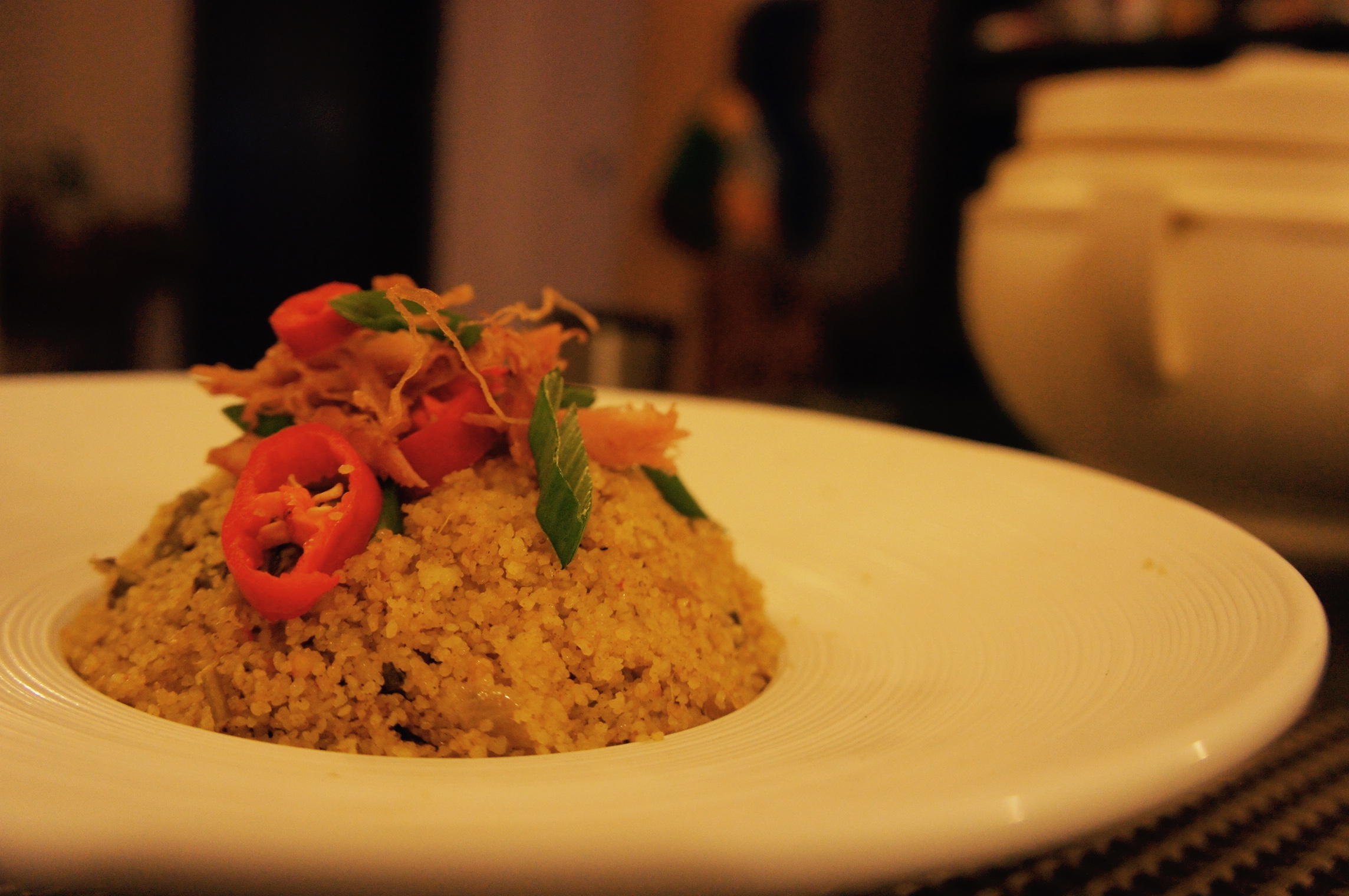 A dish made out of Fonio (Acha). This is called Dambun Acha. The phone has been steamed and then stir fried with local spices and chicken floss. This is an image from Nigeria